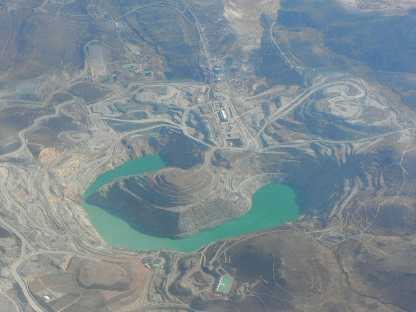 The peruvian copper mine "Minas de Tintaya" in the Cuzco Department.